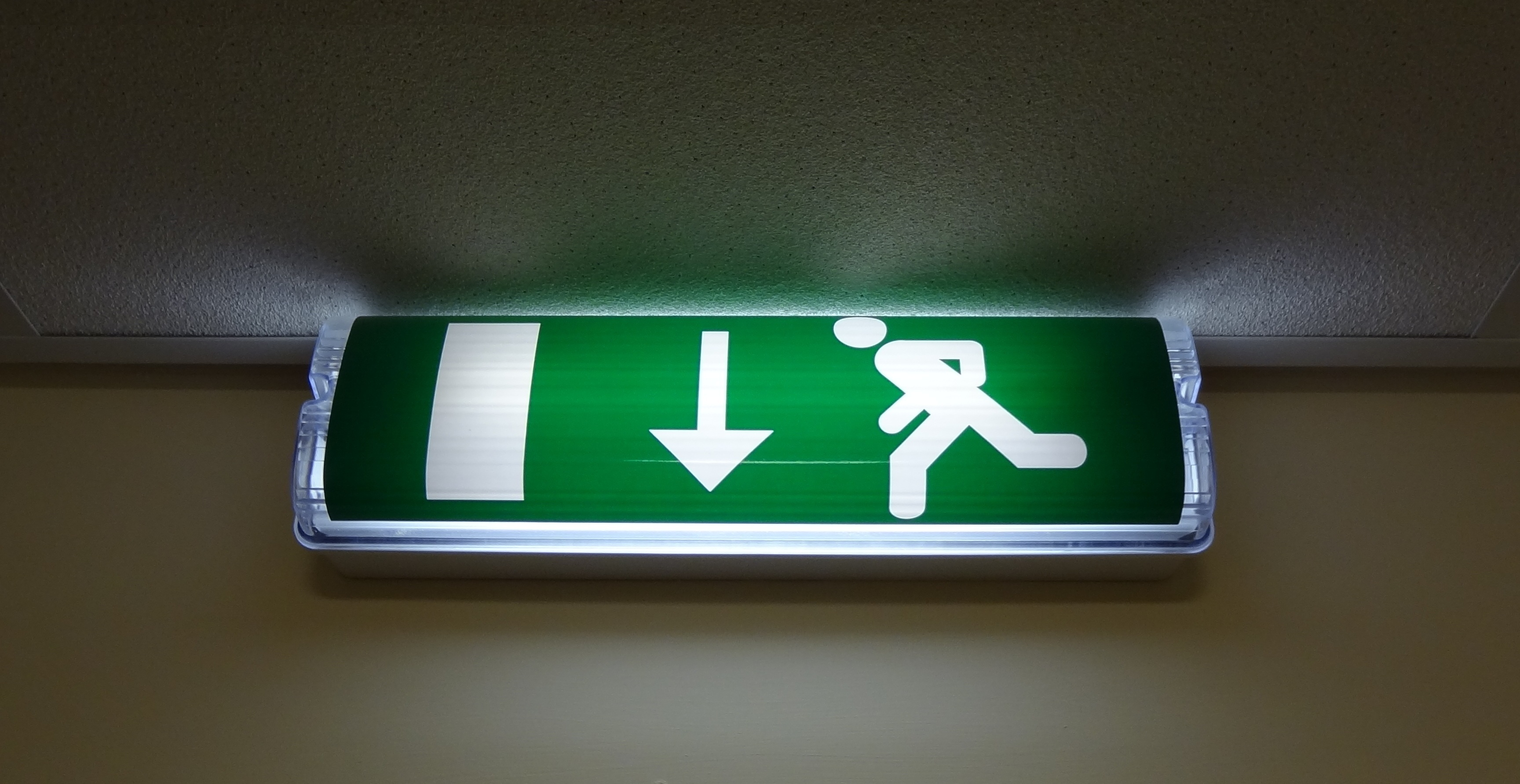 Emergency exit light sign in the UK